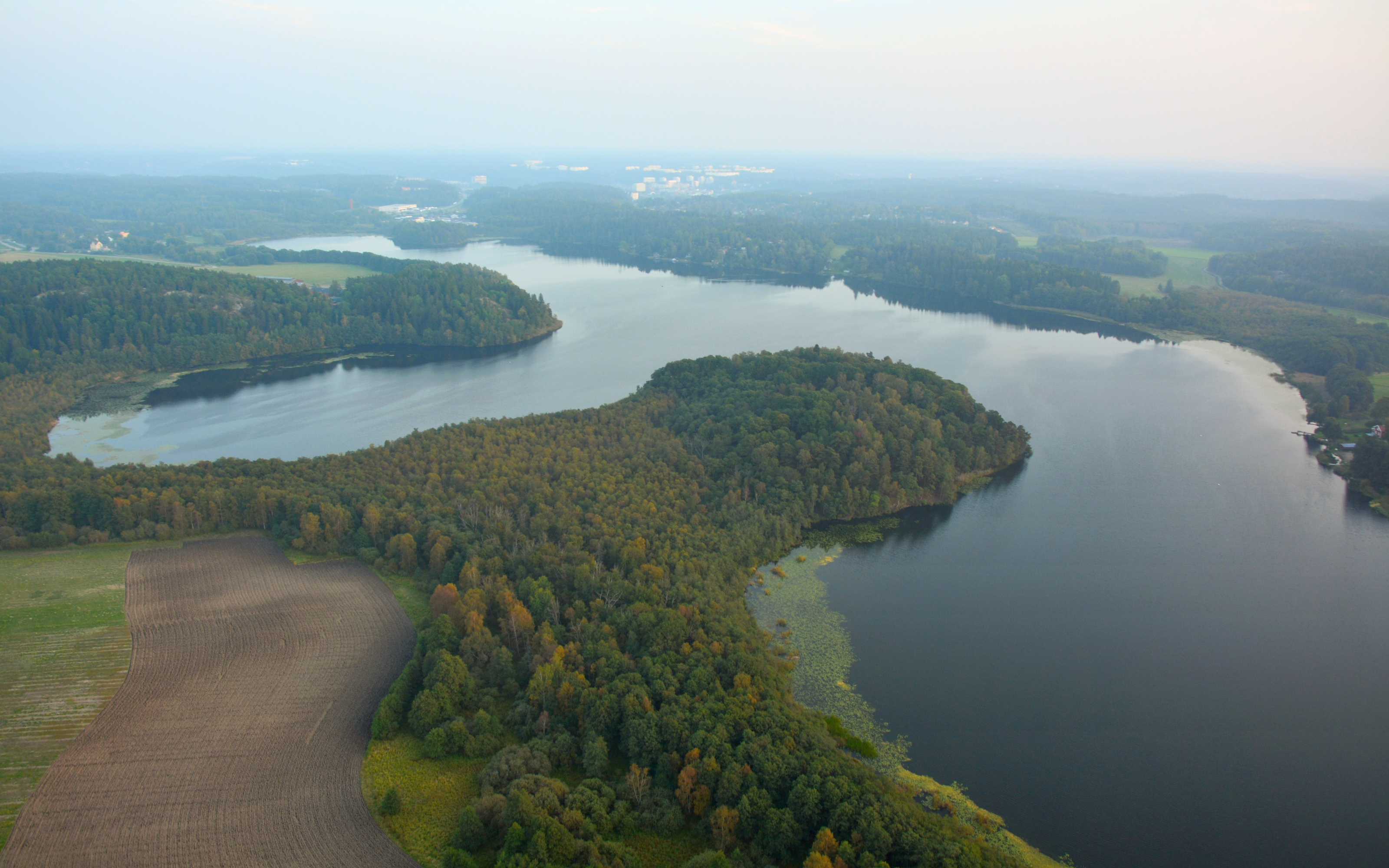 The peninsula Ekholmen in the lake Aspen in Botkyrka municipality, Sweden